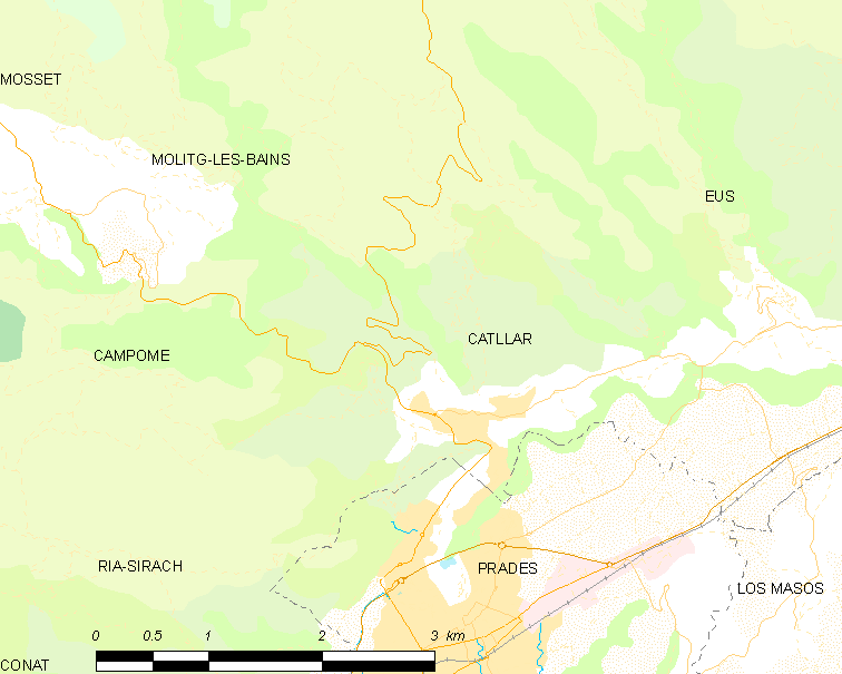 Map of French municipality